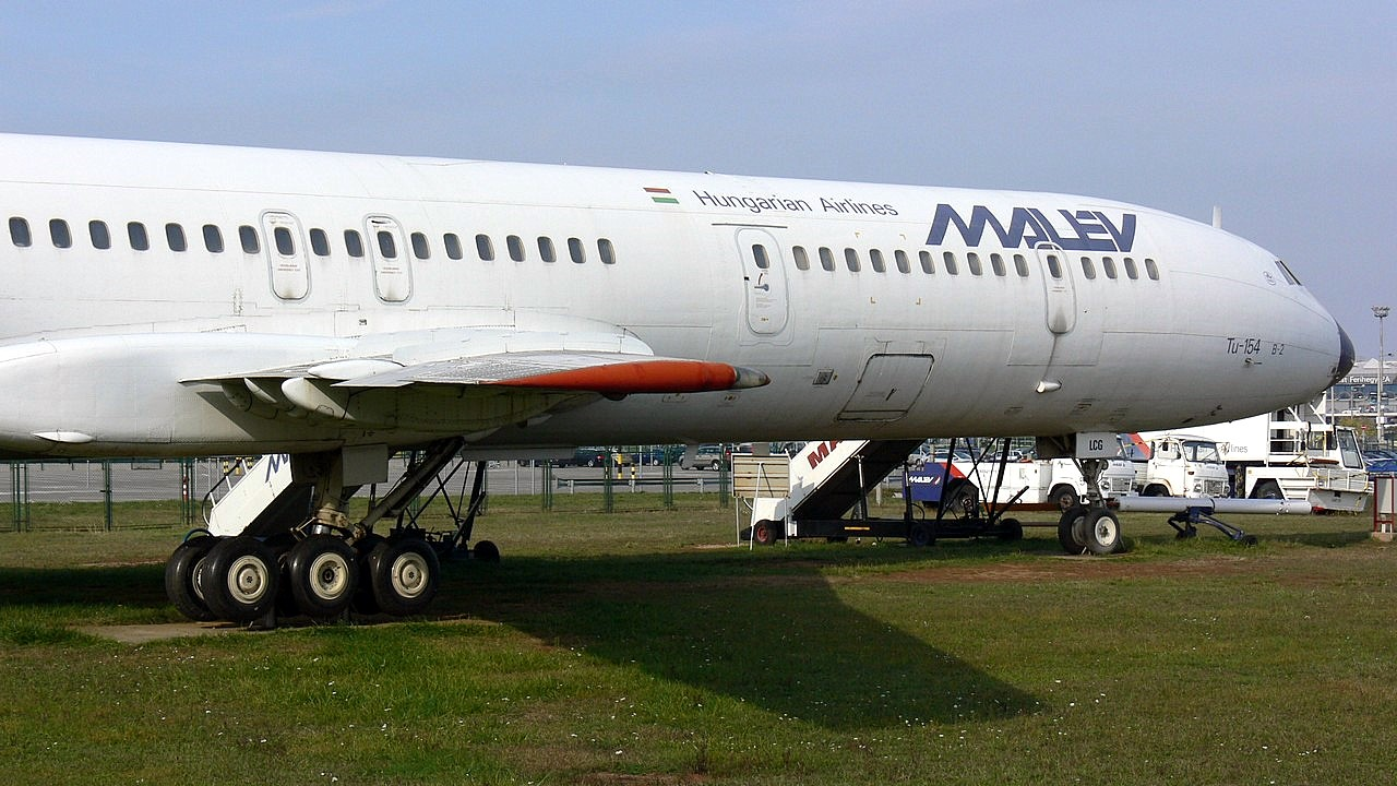 Tupolev Tu-154 B2 Malév Hungarian Airlines Location: Ferihegy Aircraft memorial Park (Budapest)